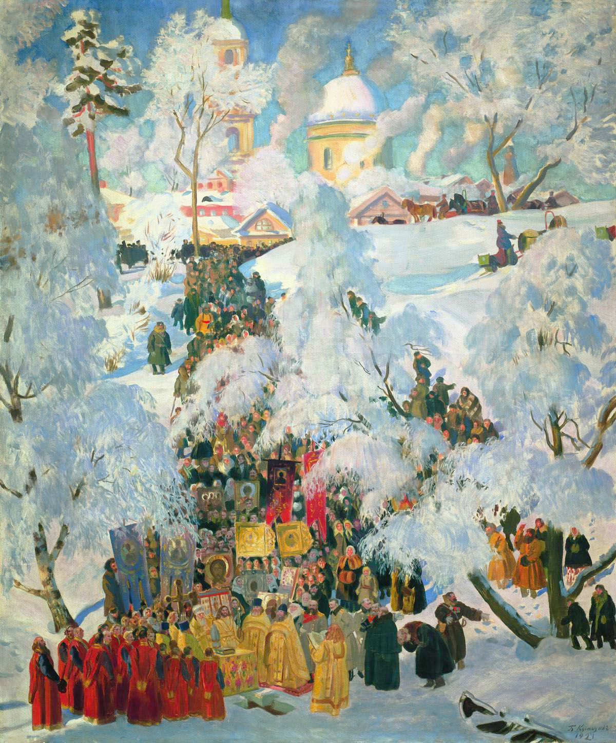 Boris Kustodiev's painting "The consecration of water on the Theophany" (1921).